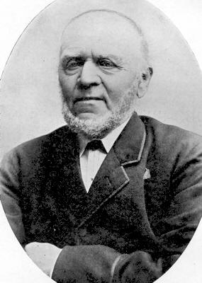 Danish farmer and politician, MP Niels Hansen (1817-1906)